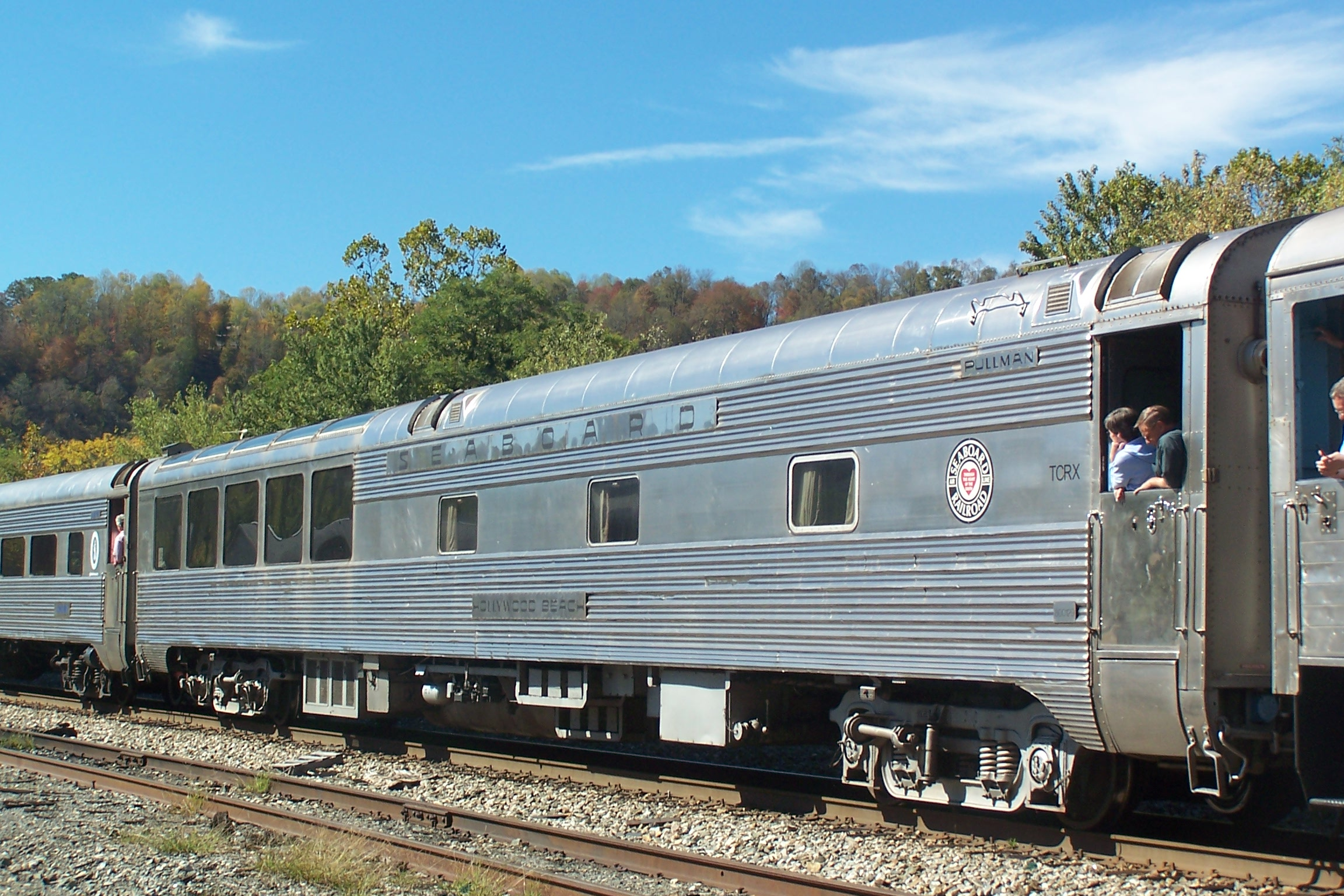 Pullman-Standard built #20 Hollywood Beach in January 1956 for the Seaboard Air Line Railroad. As built it contained five double bedrooms and a buffet lounge. There were many private cars on this year's New River Train. This shot was taken during the three hour layover in Hinton, WV on October 21st.